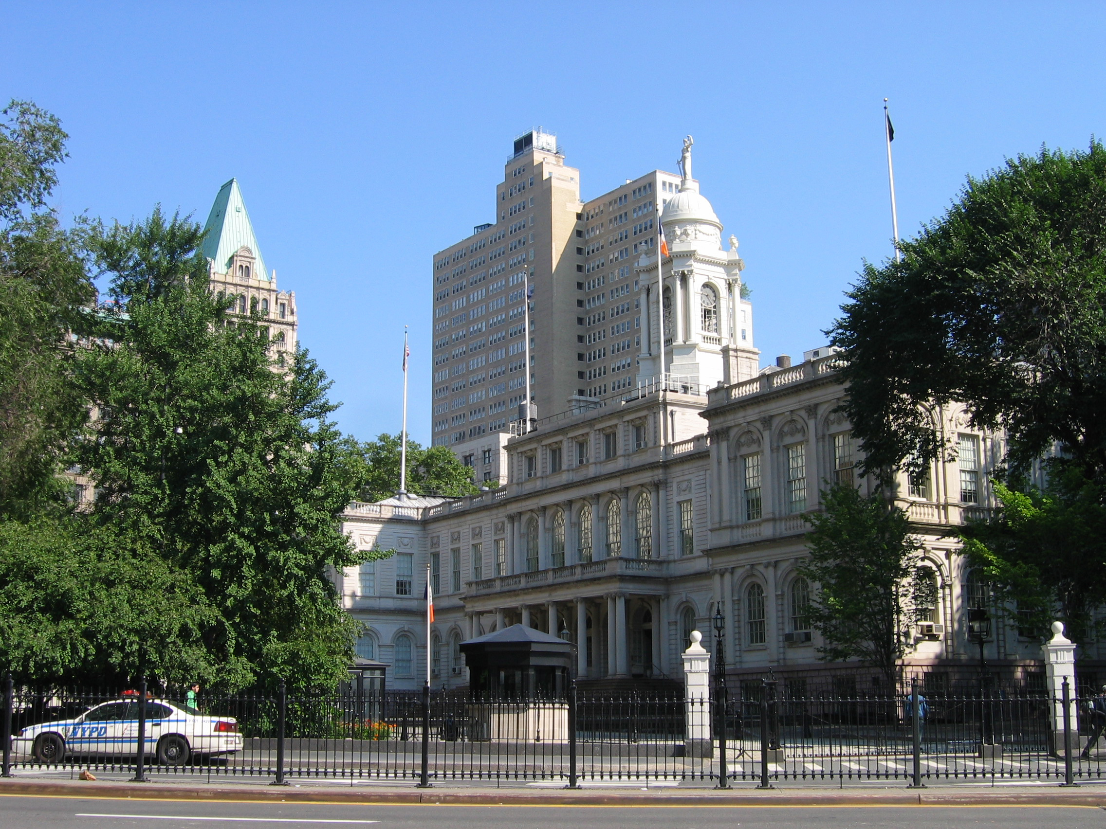 New York City Hall